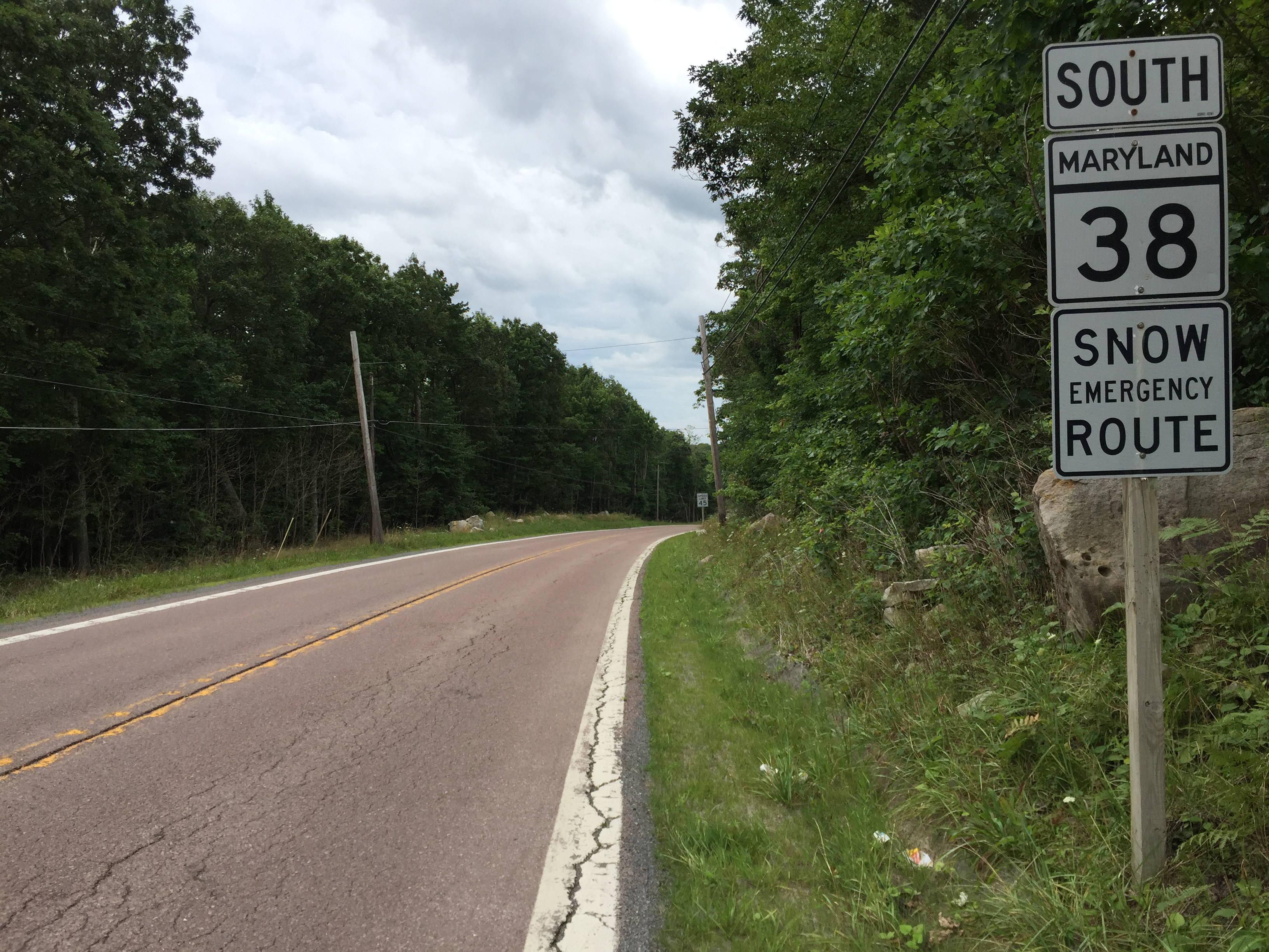 View south along Maryland State Route 38 (Kitzmiller Road) at Maryland State Route 135 in southeastern Garrett County, Maryland